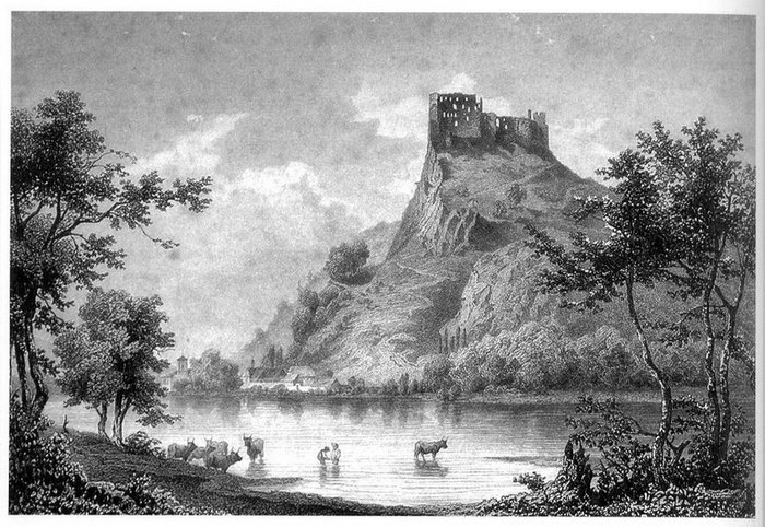 Steel engraving of Bistrizza castle by Ludwig Rohbock. Originally published in Darmstadt around 1850 AD.